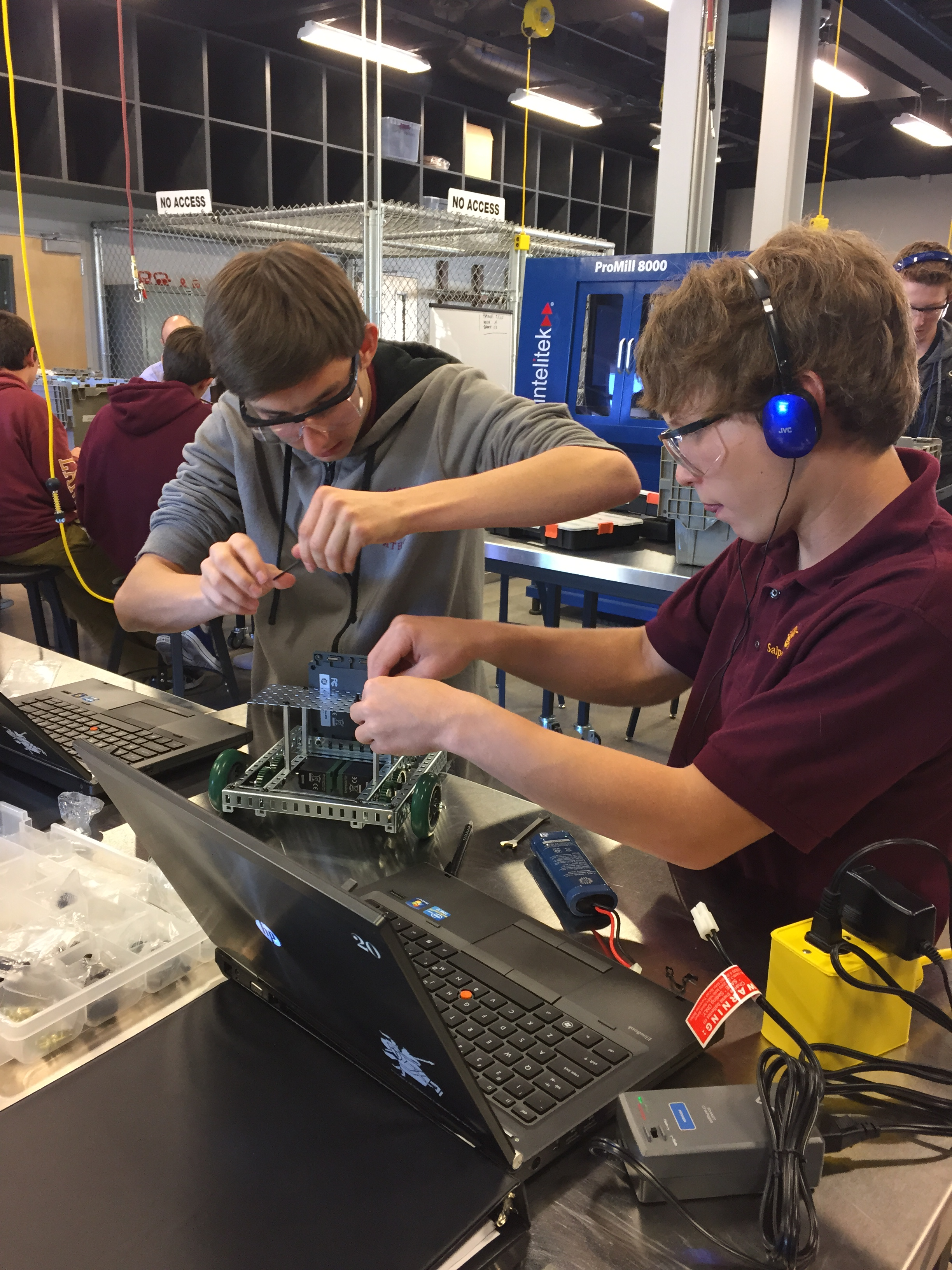 Two freshmen students at Salpointe Catholic High School in Tucson, Arizona, USA, work in the school's STEM Center on robotics.